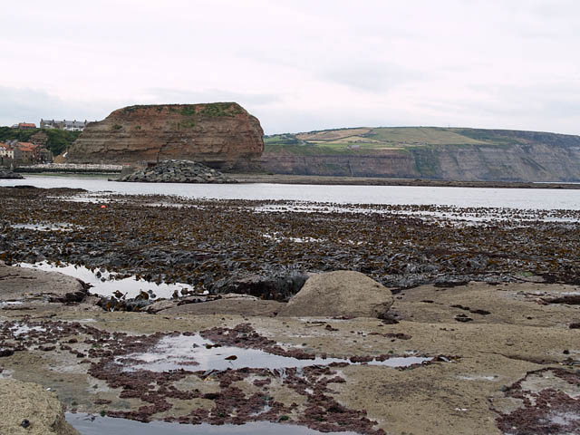 View across Staithes Harbour Looking to Cowbar Nab from Penny Steel. Staithes is on the far left of the picture, with Cowbar on the hill above.